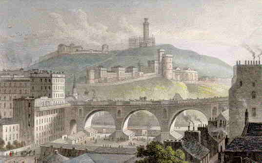 "NORTH BRIDGE CALTON HILL &c FROM THE BANK OF SCOTLAND", from Modern Athens